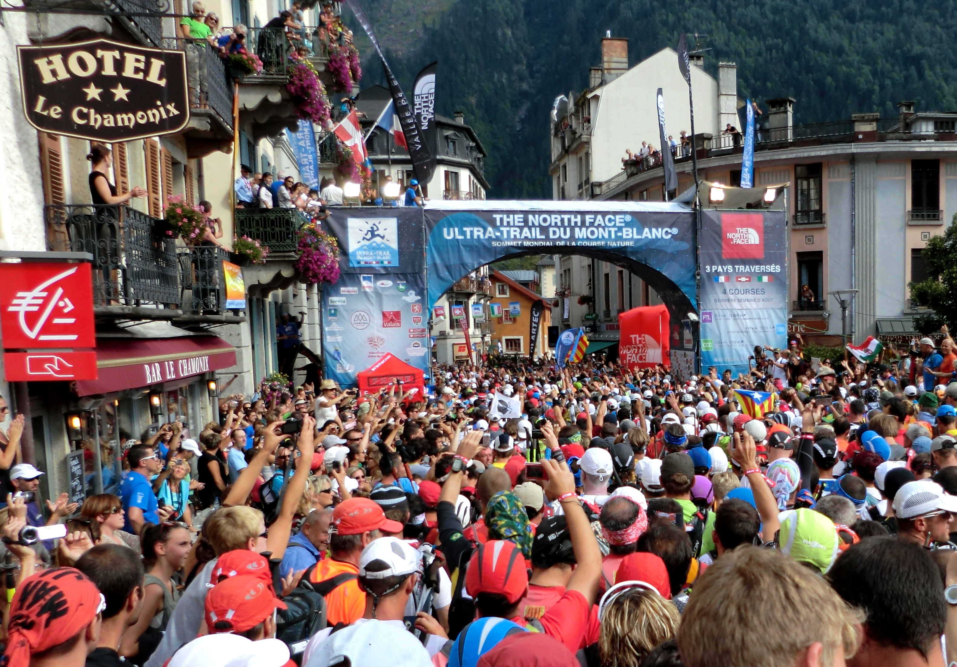 UTMB 2013,Chamonix-Mont-Blanc. Behind the starting line about 3:37 pm.